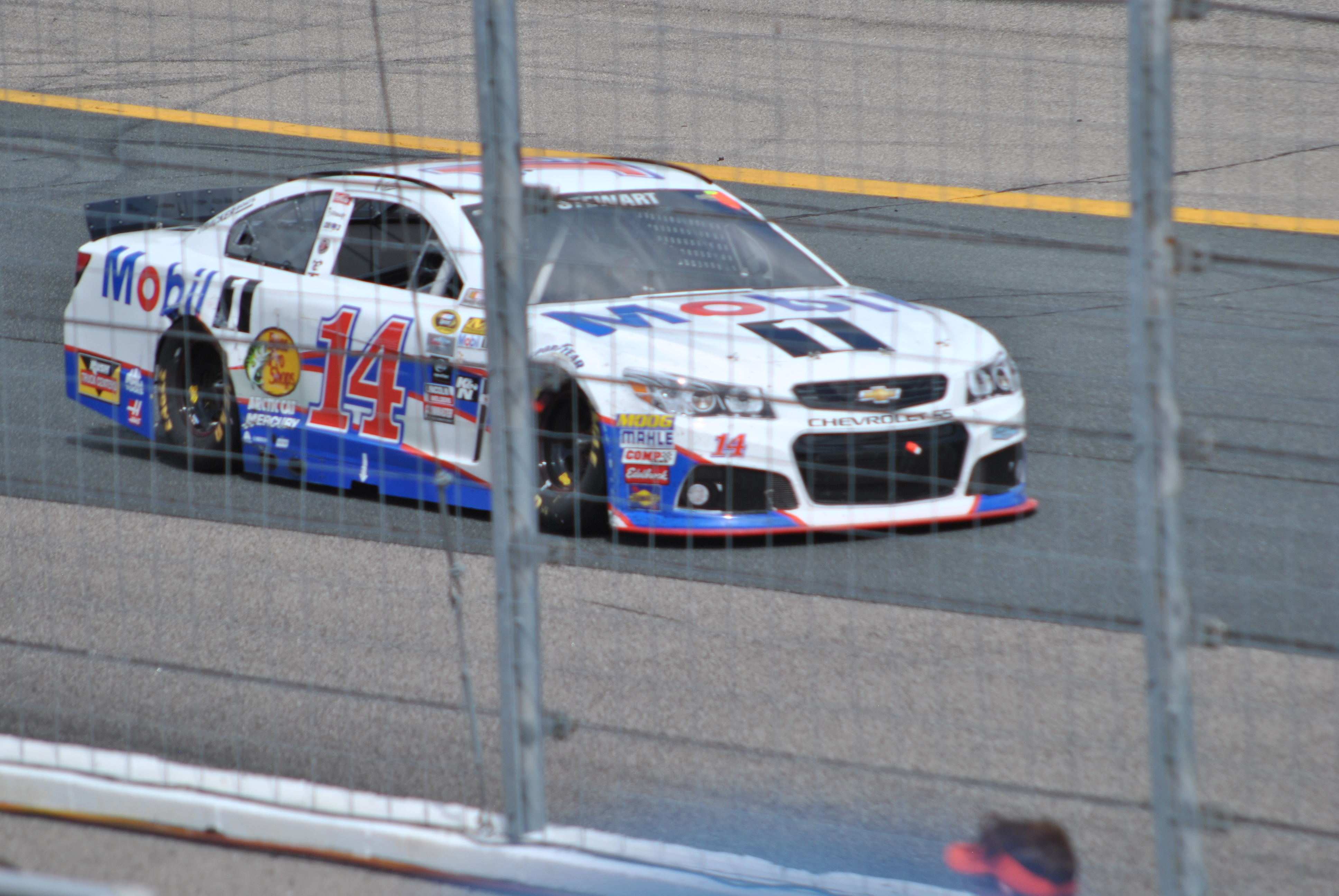 Tony Stewart in the #14 Mobil 1 Chevy